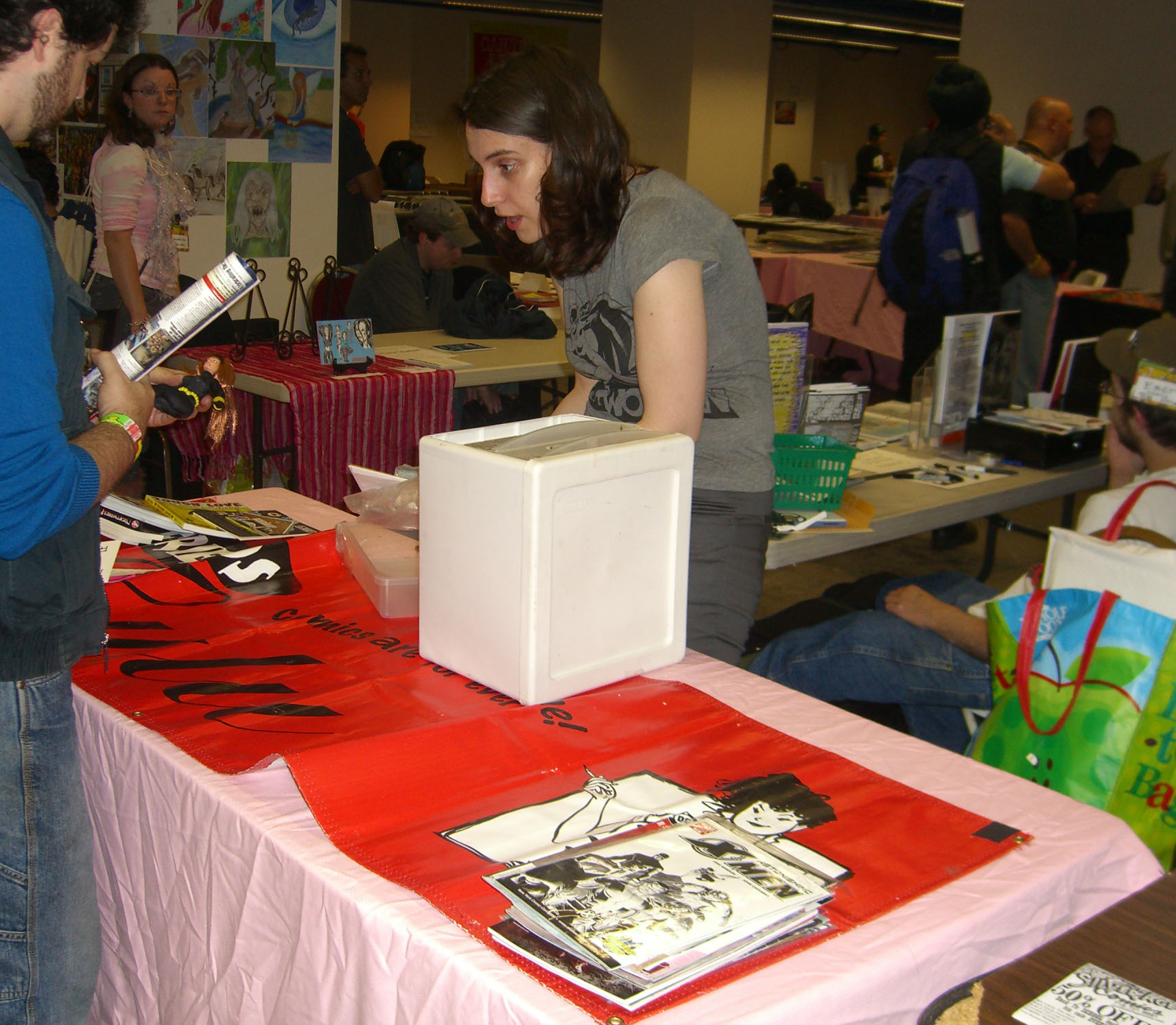 Comic book creator Valerie D’Orazio at the November 2008 Big Apple Convention in Manhattan.